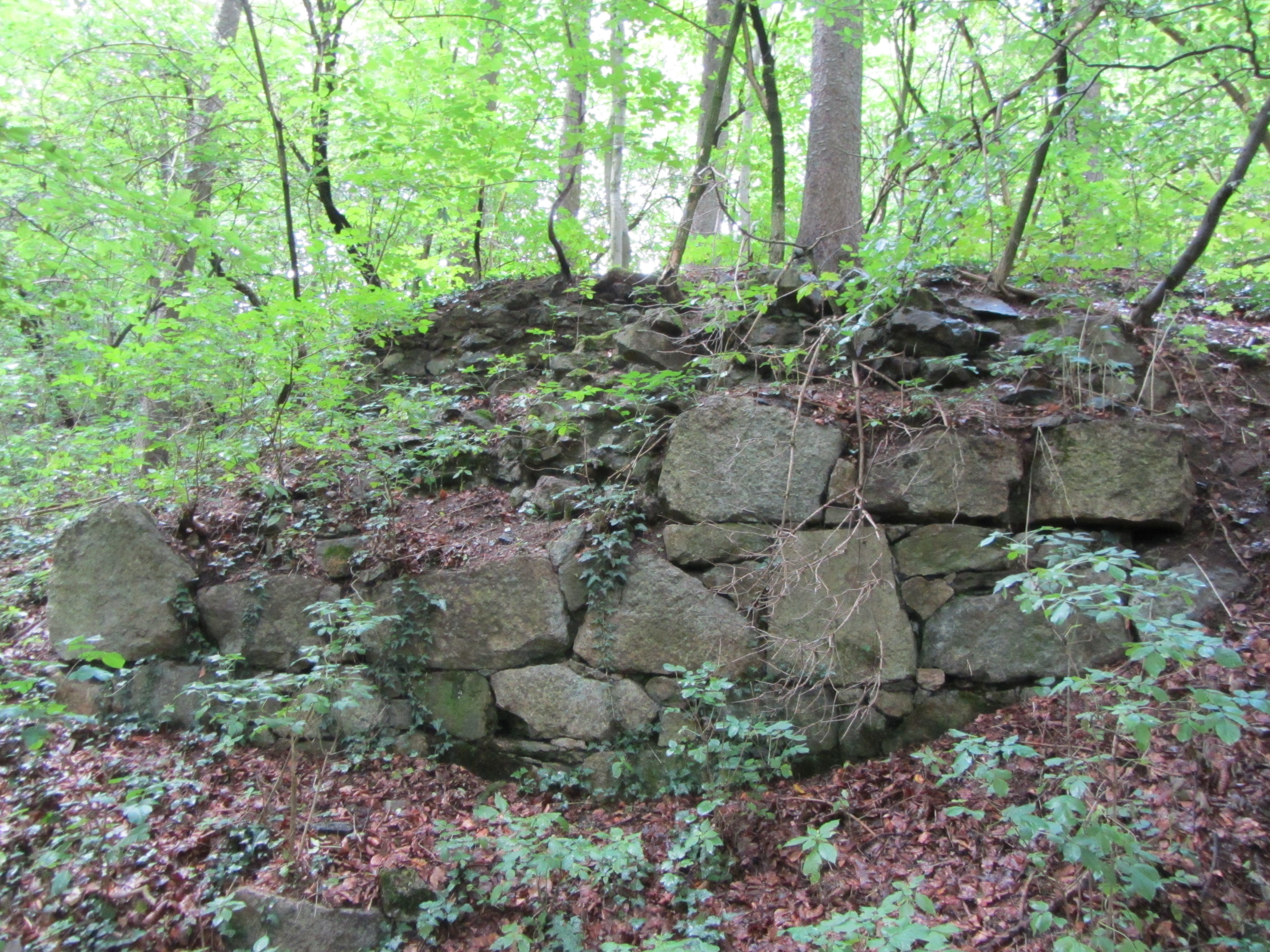 Picture of the battery "Klara", part of a former fortification around the city of Linz.